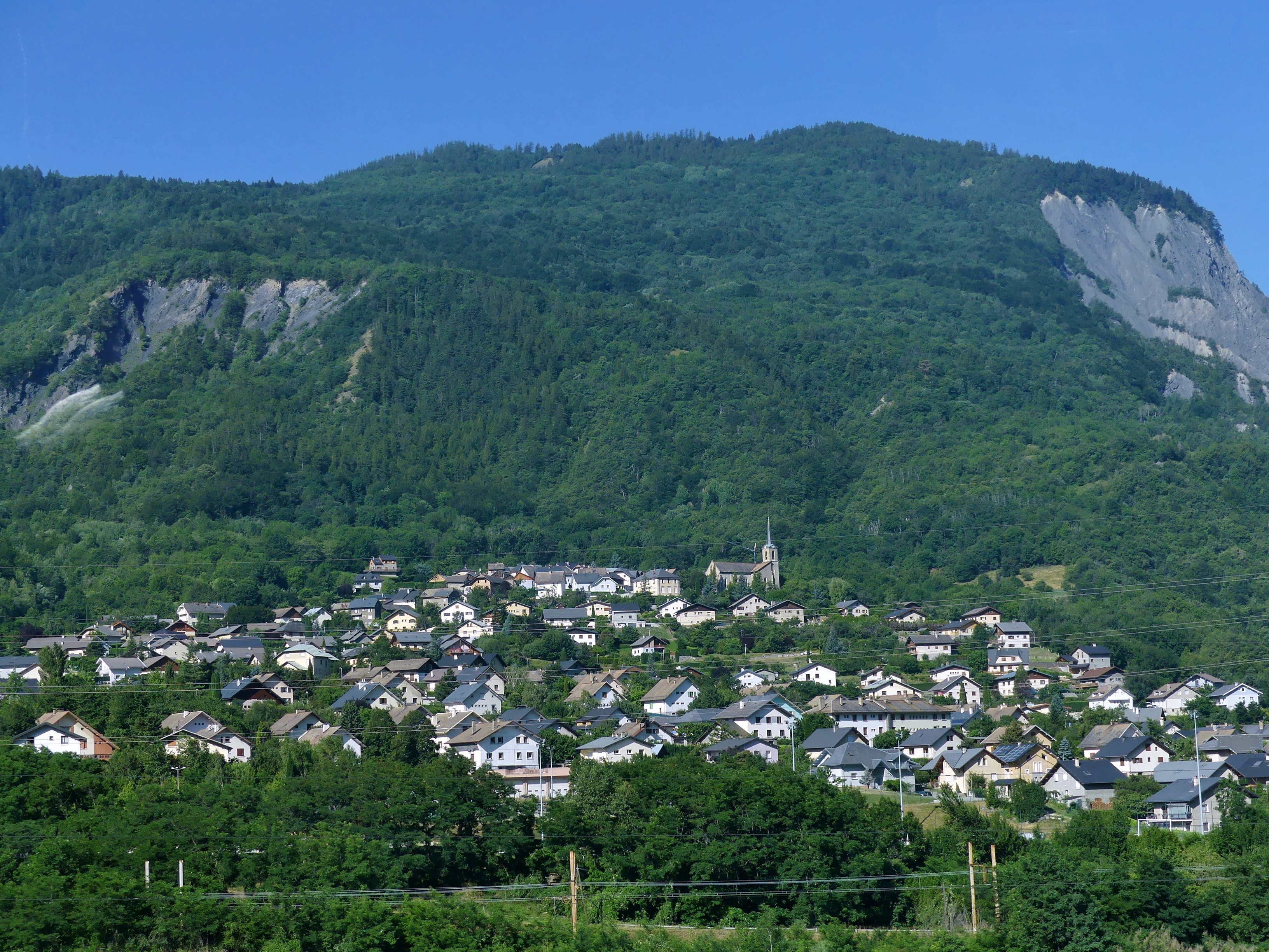 Sight, in summer from the motorway in the Maurienne valley floor, of Villargondran village near Saint-Jean-de-Maurienne, in Savoie, France.